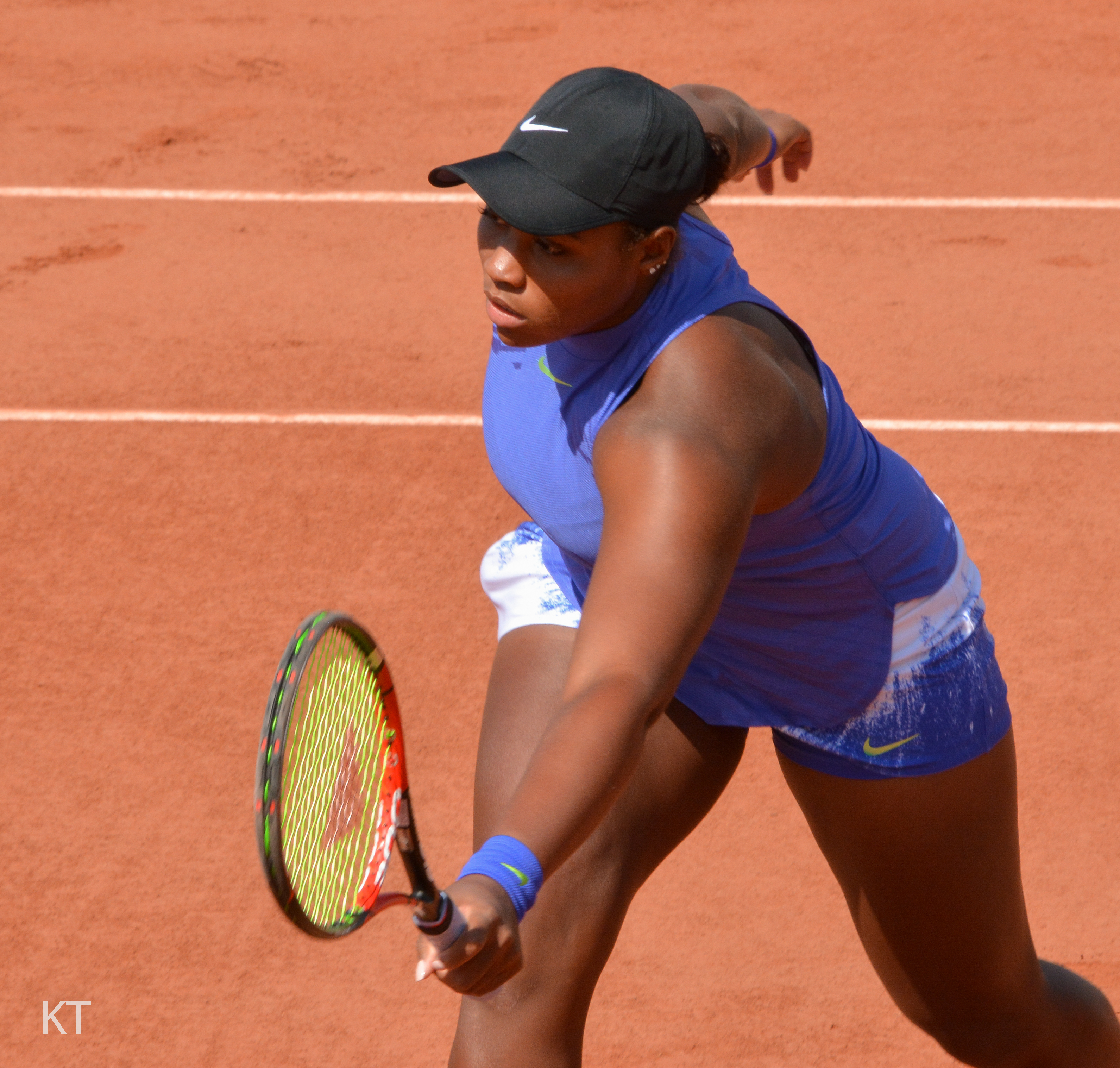 Taylor Townsend at Roland Garros 2017